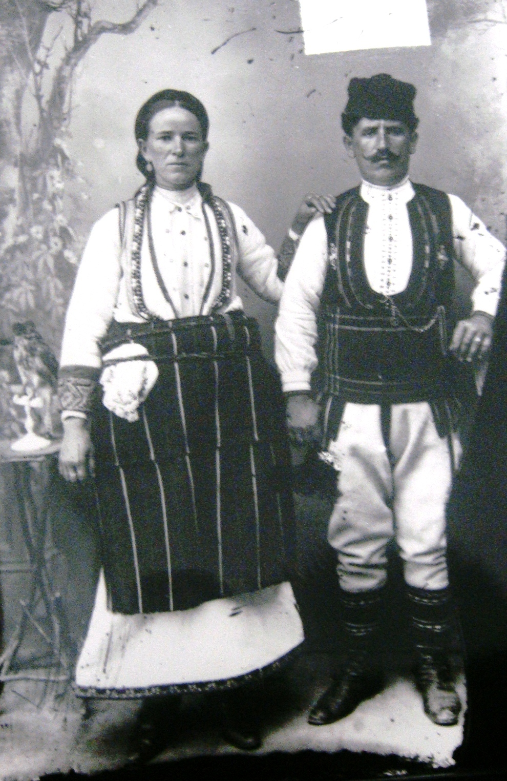 Couple from the village Zeleznec, Demir Hisar, dressed in national costume. (Bitola, 1904) This media file is produced by Wikipedian in Residence in Category:Wikipedian in Residence at DARM in 2016.